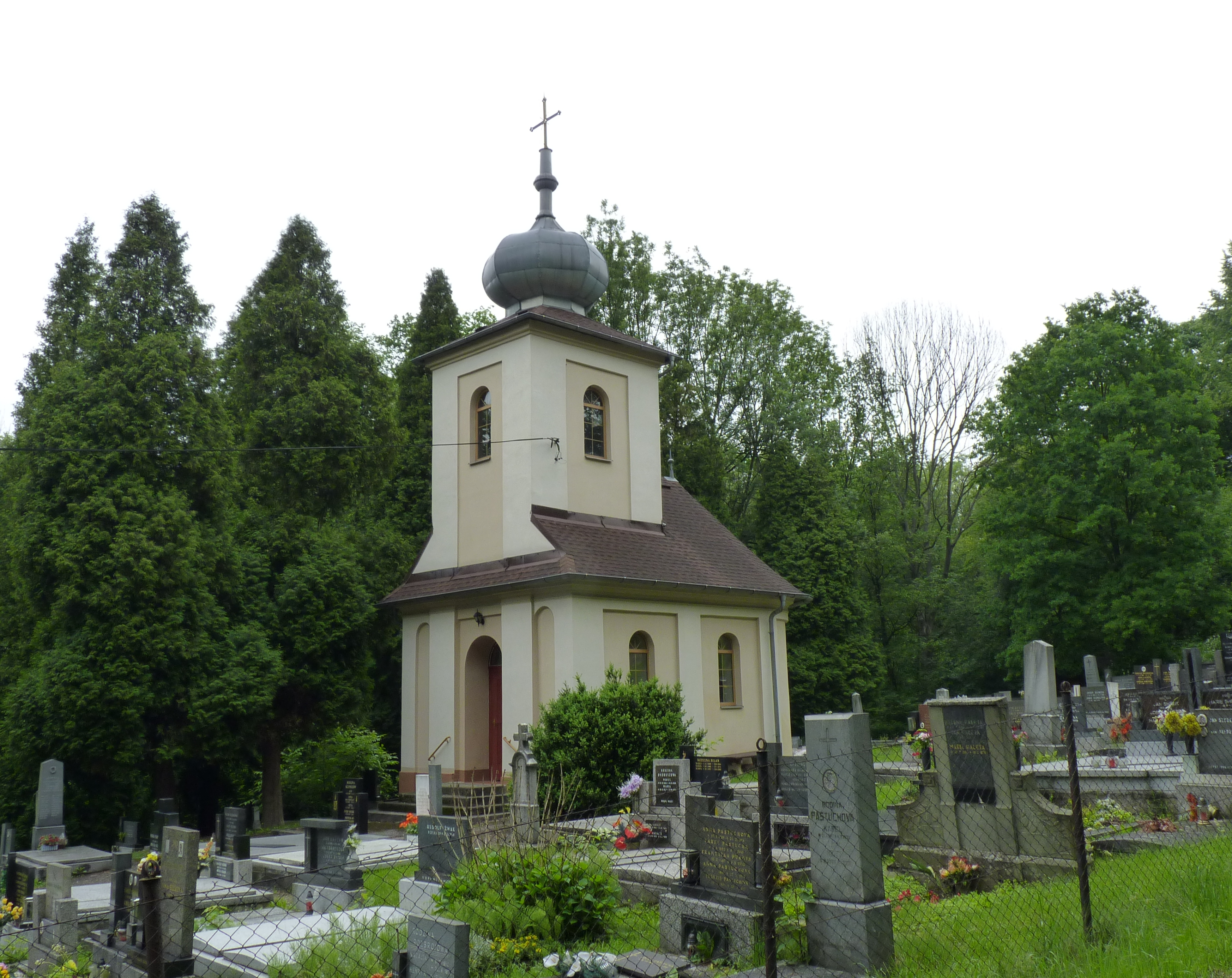 Horní Těrlicko, cemetery. Karviná District, Moravian-Silesian Region, Czech Republic